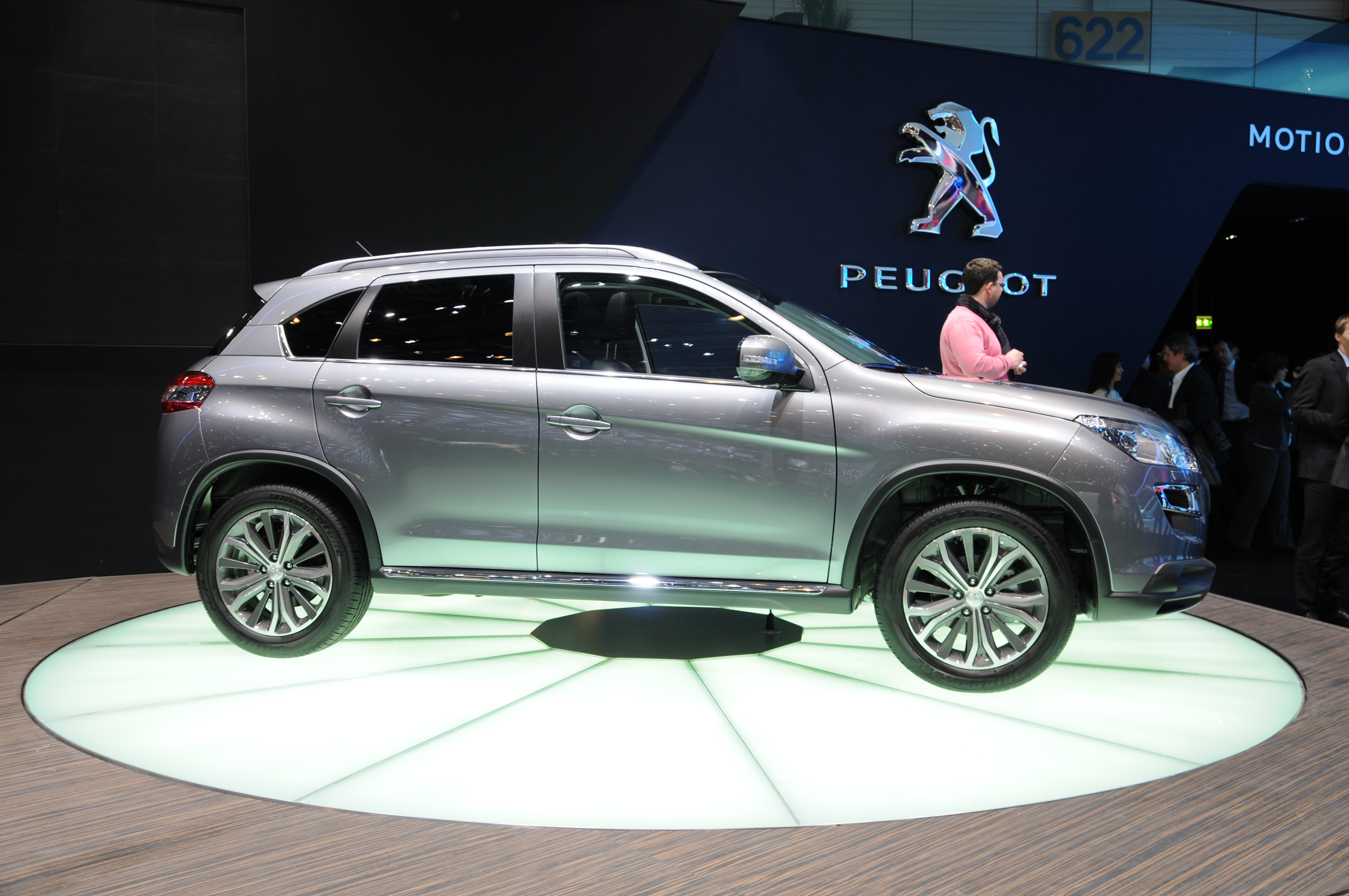 Geneva Motor Show 2012 (photos taken on the second press day)